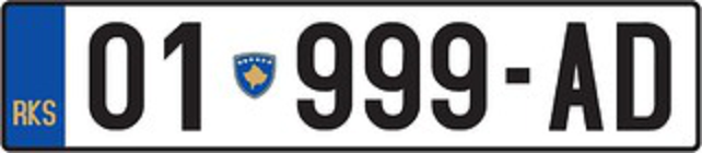 Illustration of Republic of Kosovo (RKS) license plate